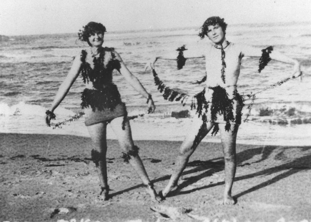 Essie McKay and Althea Cook on the beach in Bucasia, 1931 They are both wearing seaweed.